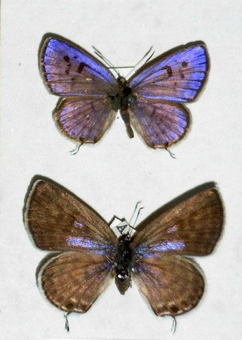 Tarucus theophrastus and Tarucus balkanicus